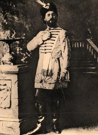 Russian tenor Fyodor P. Komissarshevskiy (1832-1905) in role of the Pretender in Boris Godunov (1873)